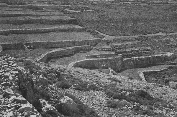 Abu Qash - Ramallah: Land reclamation in the village. In one half terraces have been rebuilt in place of the old ones. In the second half the area is still unbuilt